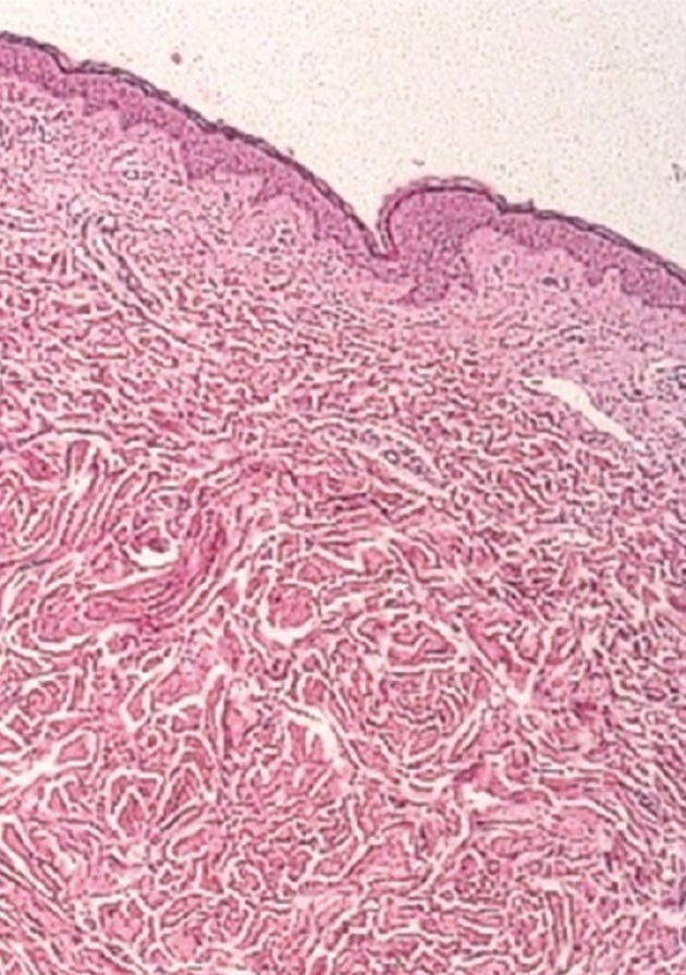 Histopathology of dermatofibrosis lenticularis disseminata in Buschke-Ollendorff syndrome, x20